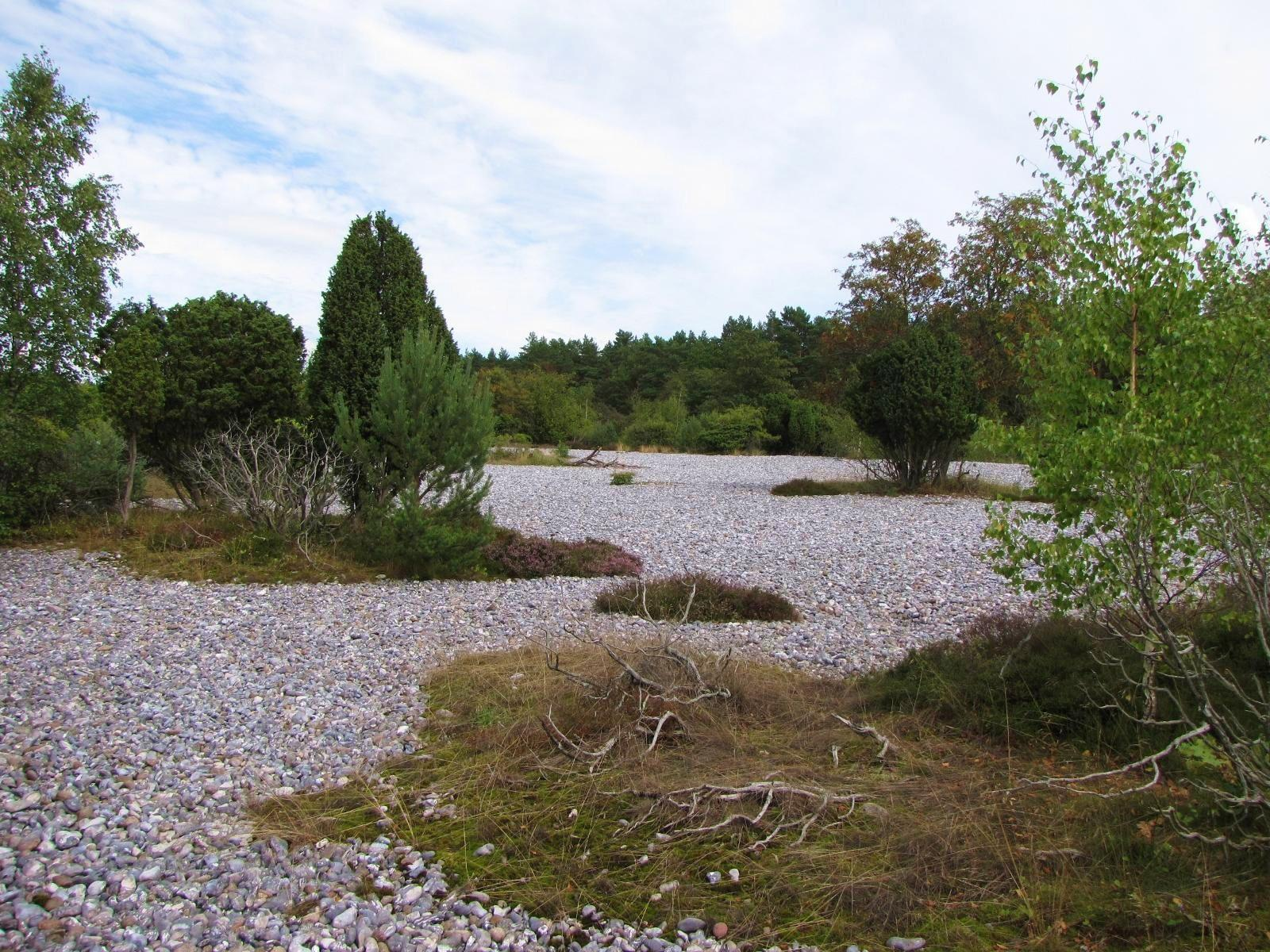 Germany / Rügen / flintstone fields